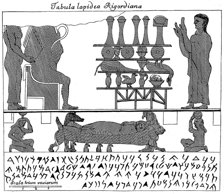 Lettre de Monsieur Rigord - Carpentras Stele